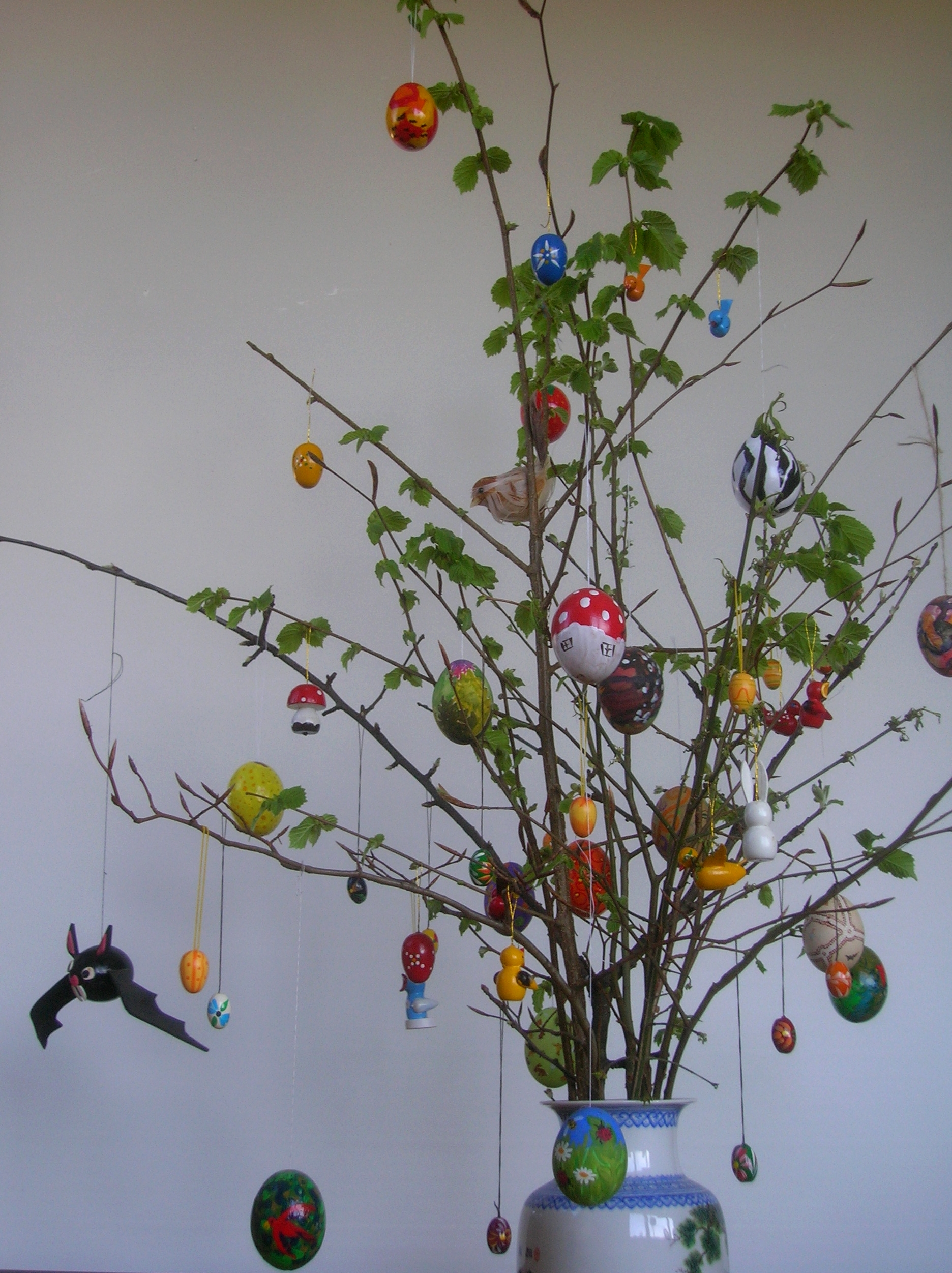 Easter bouquet in Gleisdorf in Austria in 2010